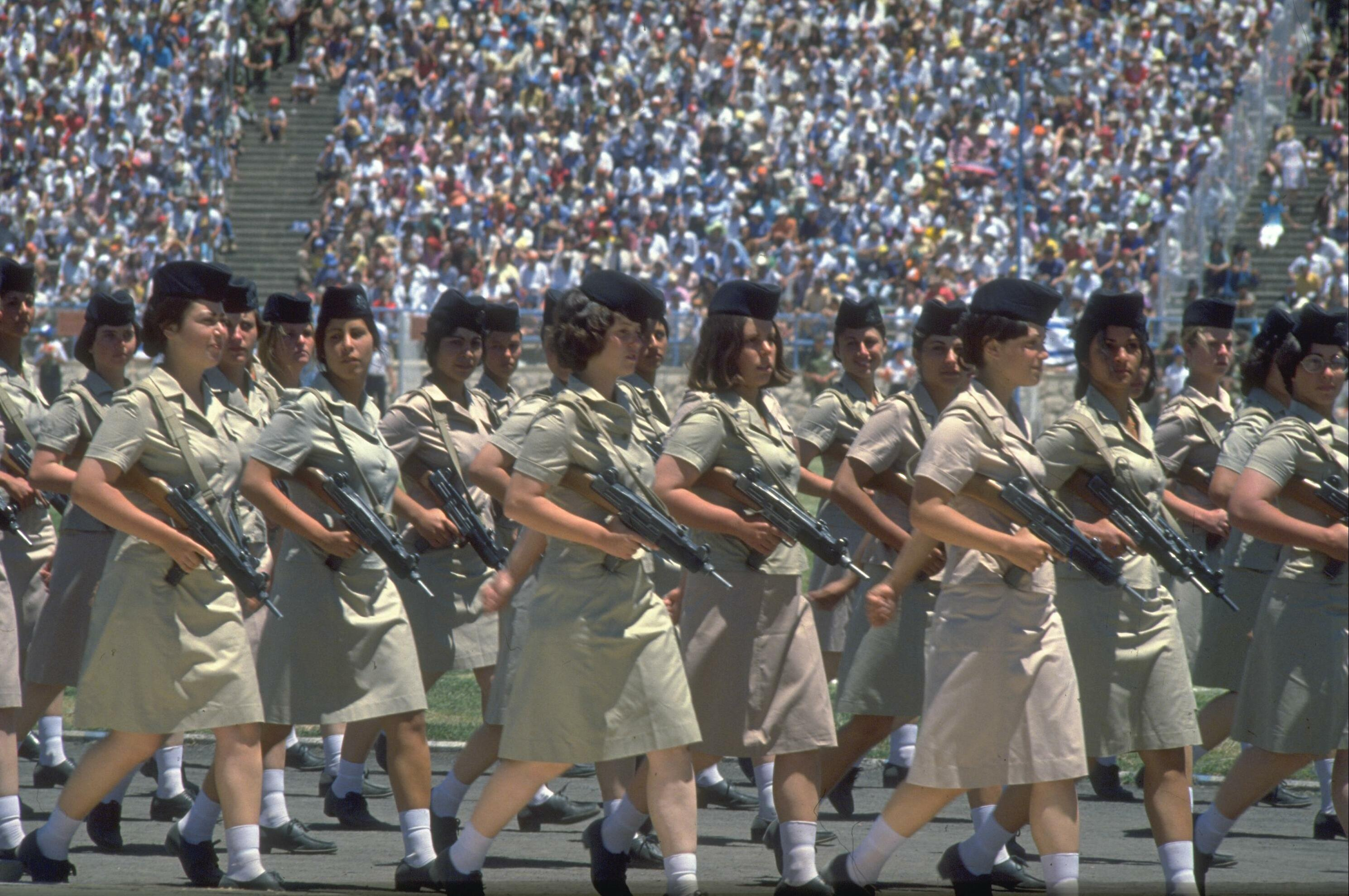 IDF WOMEN SOLDIERS ON PARADE DURING THE STATE OF ISRAEL'S 30TH INDEPENDENCE DAY CELEBRATIONS THAT WERE HELD AT THE HEBREW UNIVERSITY STADIUM IN JERUSALEM.